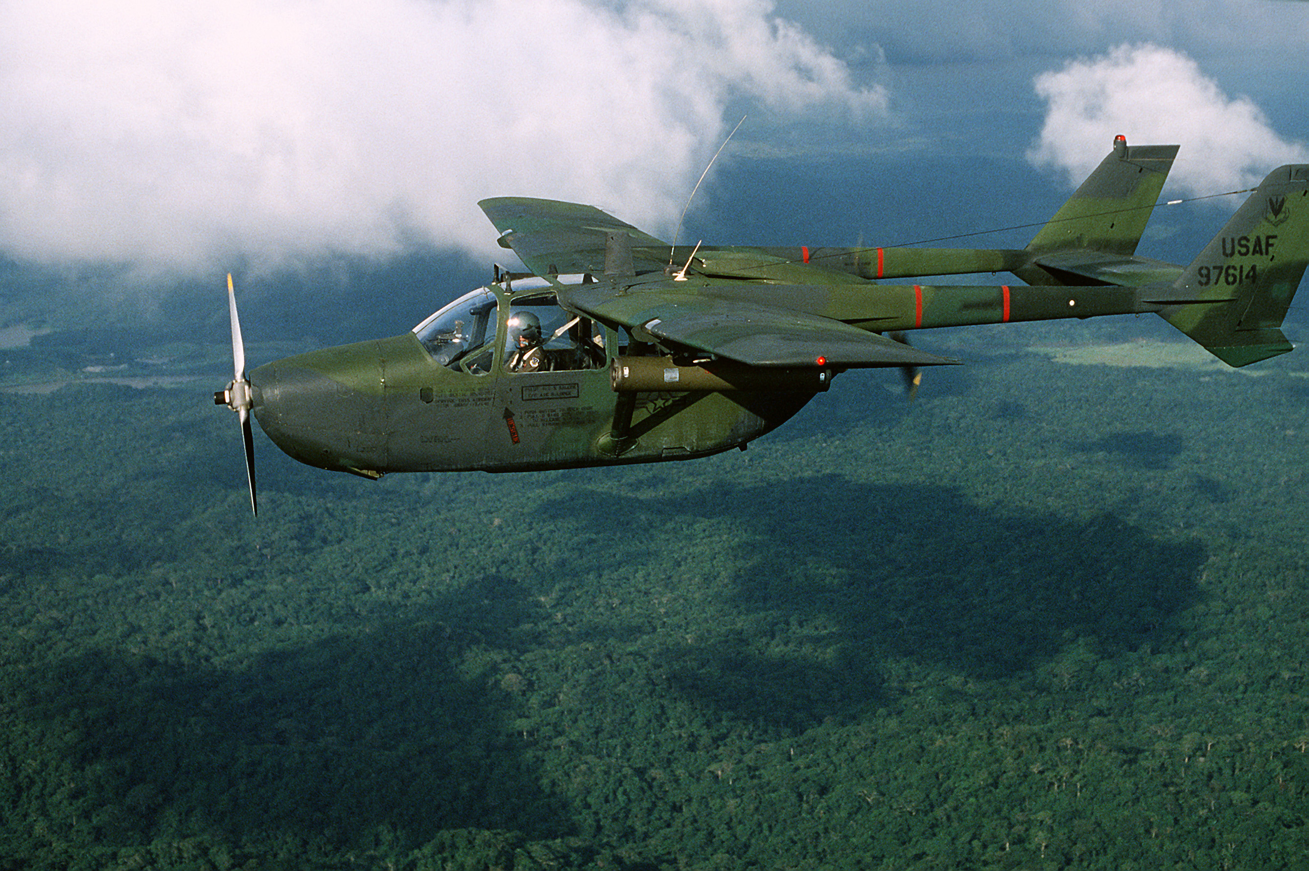 An air-to-air left side view of an O-2A aircraft flying over the Empire Range near Howard Air Force Base, Panama. It is assigned to the 24th Composite Squadron.